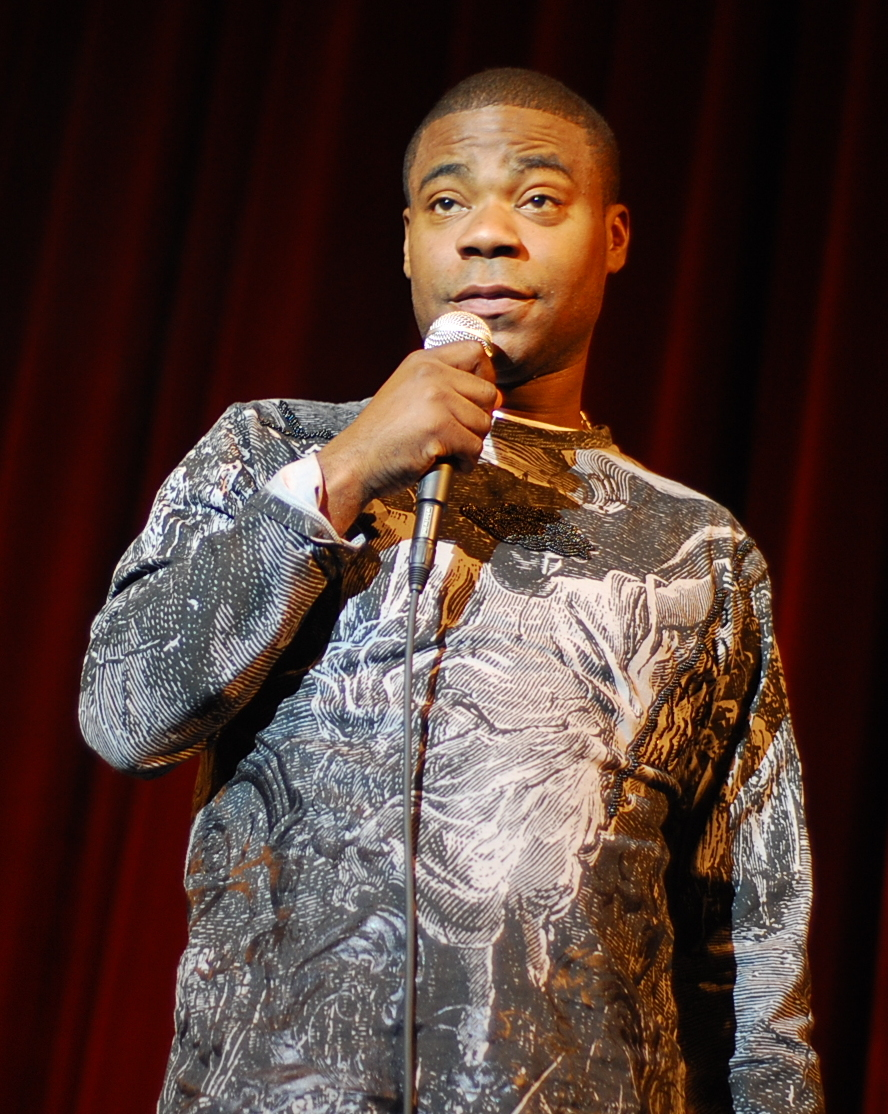 Tracy Morgan performing at Cornell University